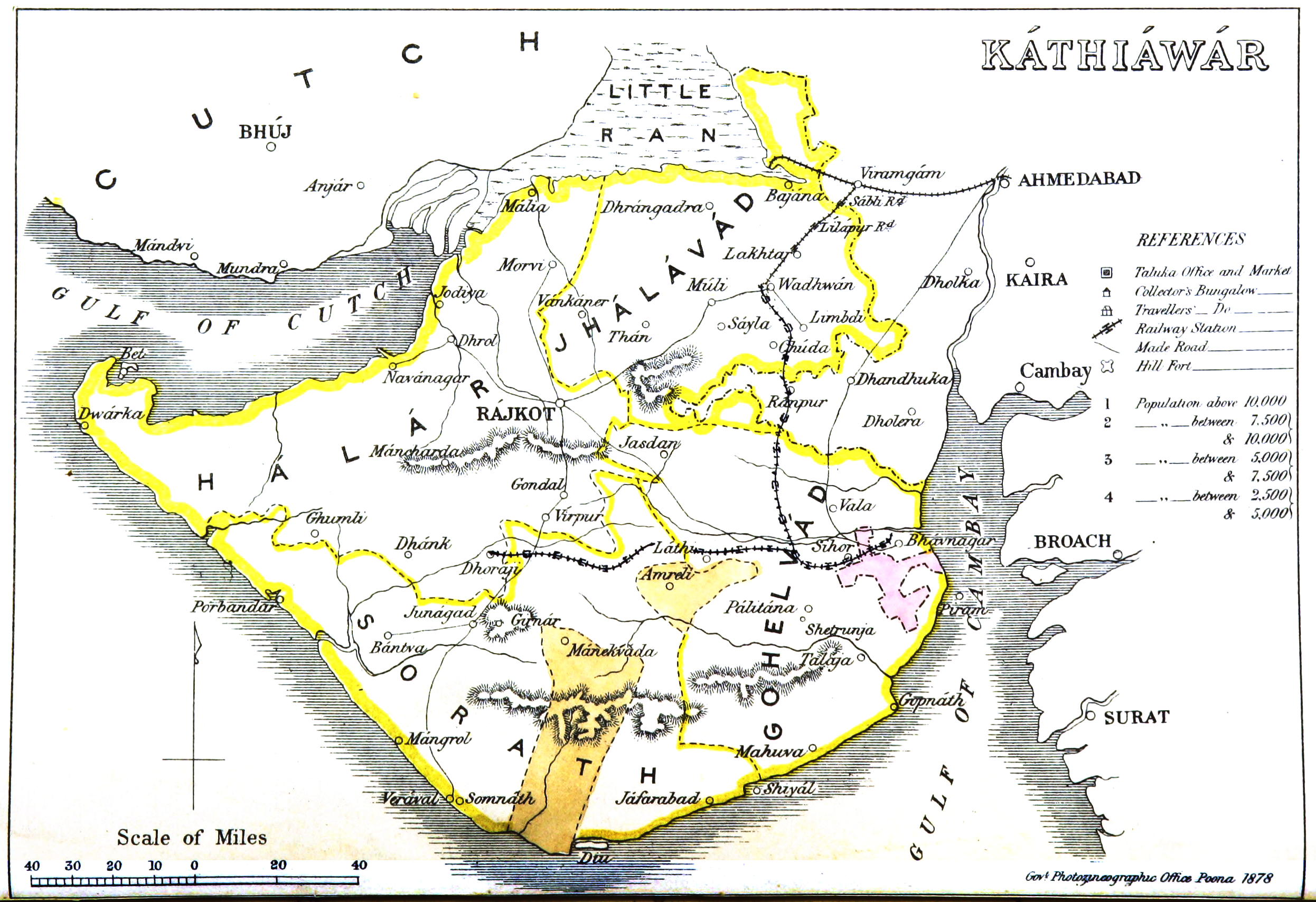 Map of Kathiawar